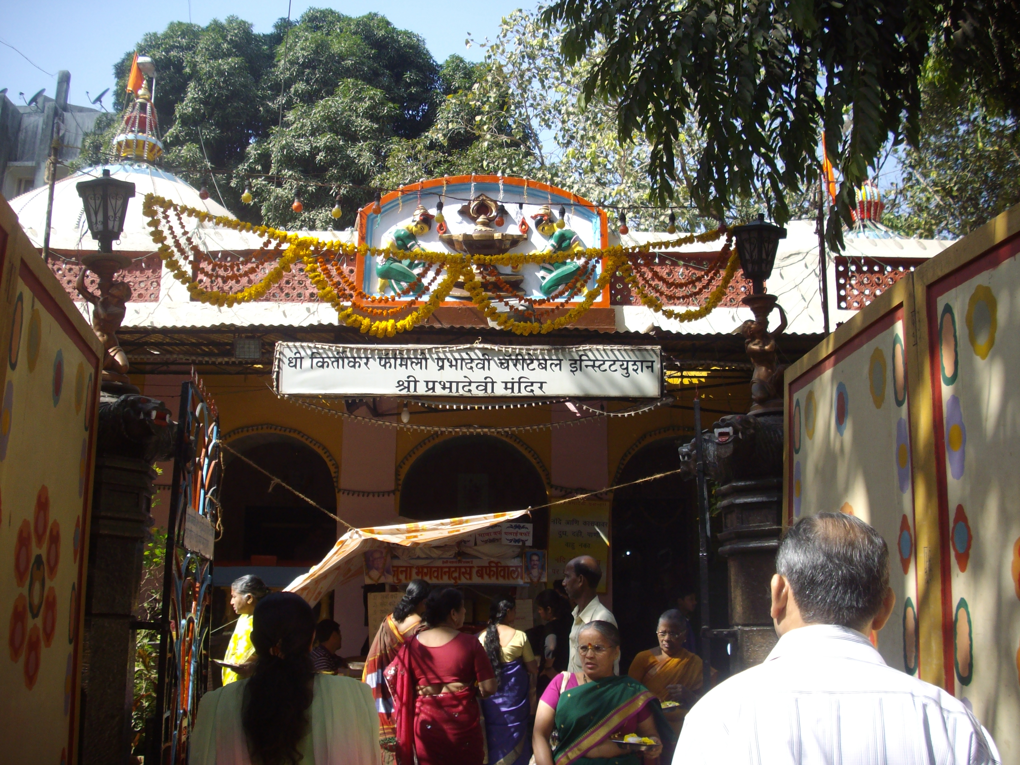 Devotees at the "Prabhadevi Temple " in Mumbai.Yearly a 10 day Jatra(Fair) is held at the temple and its vicinity.